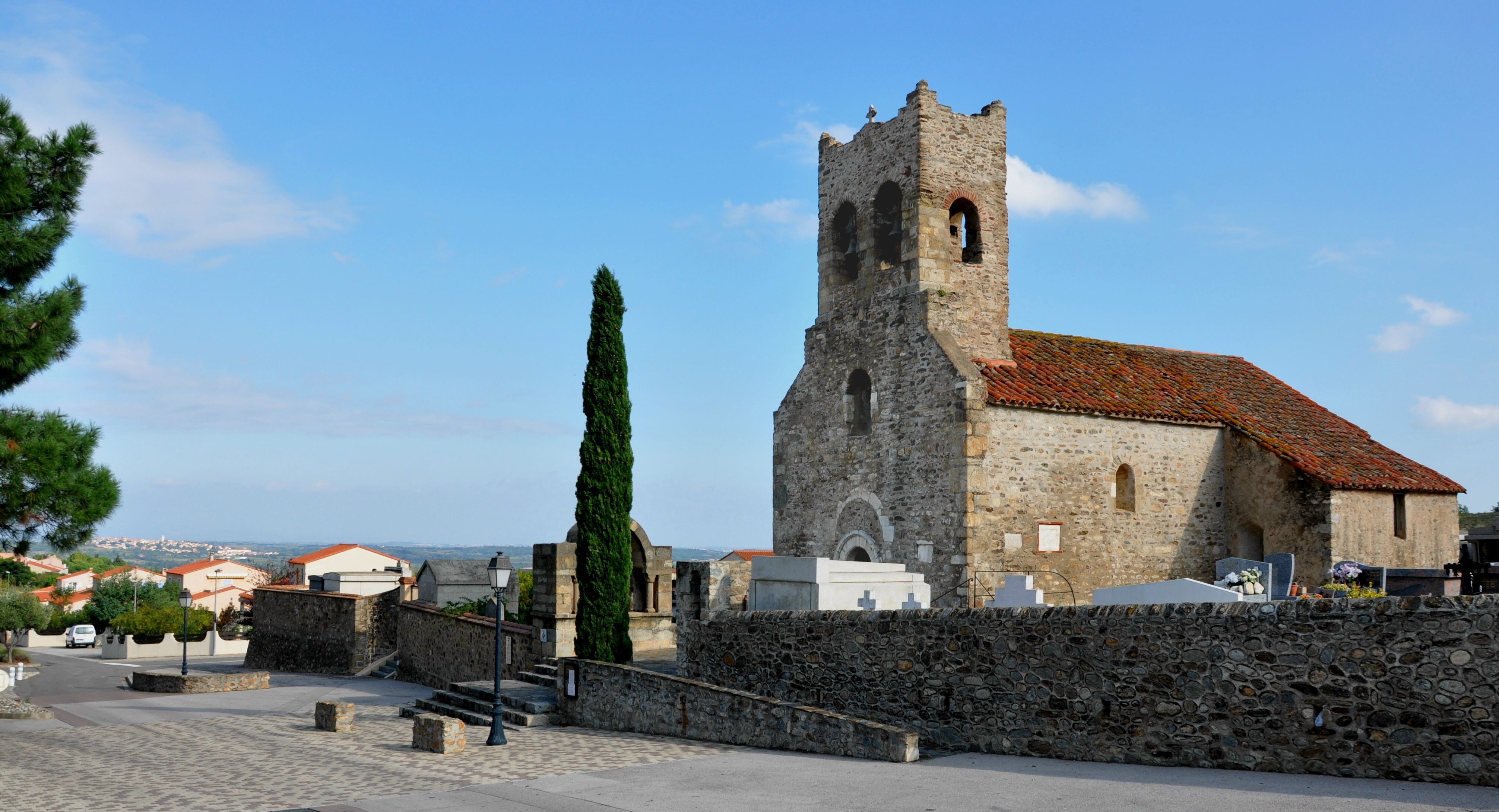 Romanesque church Saint-Saturnin de Montesquieu-des-Albères, 12th century, Roussillon, France. In the background, Banyuls-dels-Aspres.